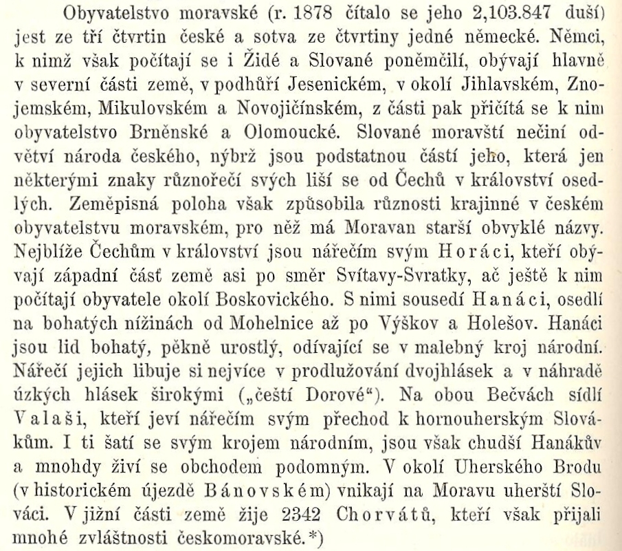 Description of ethnic composition of Moravians in 1878.